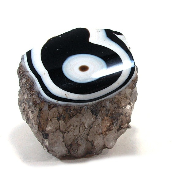 Agate (Var.: Onyx), Quartz Locality: Minas Gerais, Southeast Region, Brazil (Locality at ) Just a REALLY mesmerizing specimen of the onyx variety of agate, with an incredible "eye" staring out at you! Oddly, the rear end is made up of terminated quartz, so its a strange twofer of crystal and agate in one specimen. You could cut a good 7-8 slabs out of this one, each with the eye as it goes all the way through. It is even more impressive, in person. I am told this is very old lapidary material and uncut samples are impossible to obtain these days. Certainly, Herfurth bought heavily in the 50s and 60s and it is an older piece. 7 x 5.8 x 5.5 cm